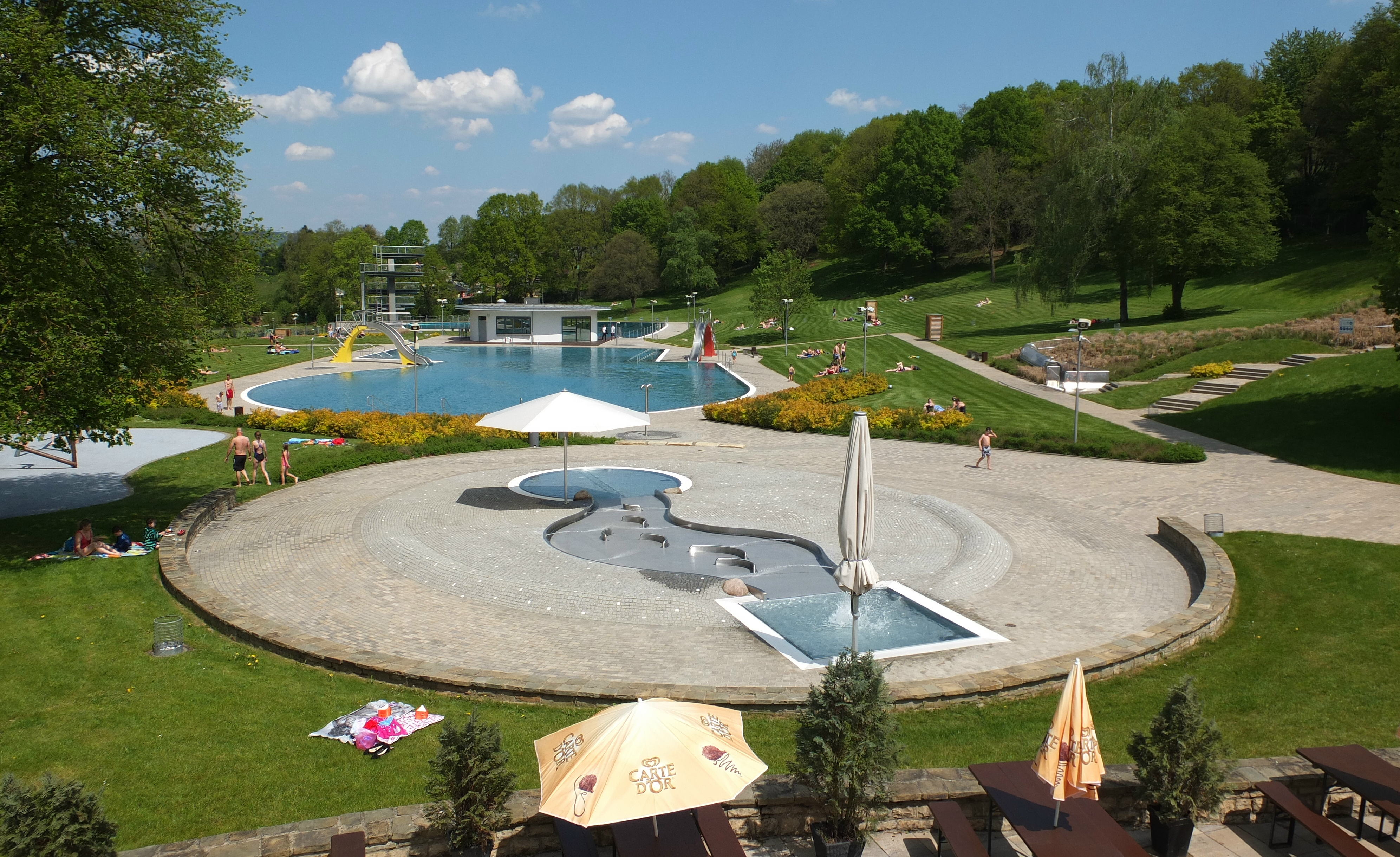 Public pool "Südbad", Trier, Feyen-Weismark (Germany) This is a photograph of an architectural monument.It is on the list of cultural monuments of Trier-Feyen/Weismark